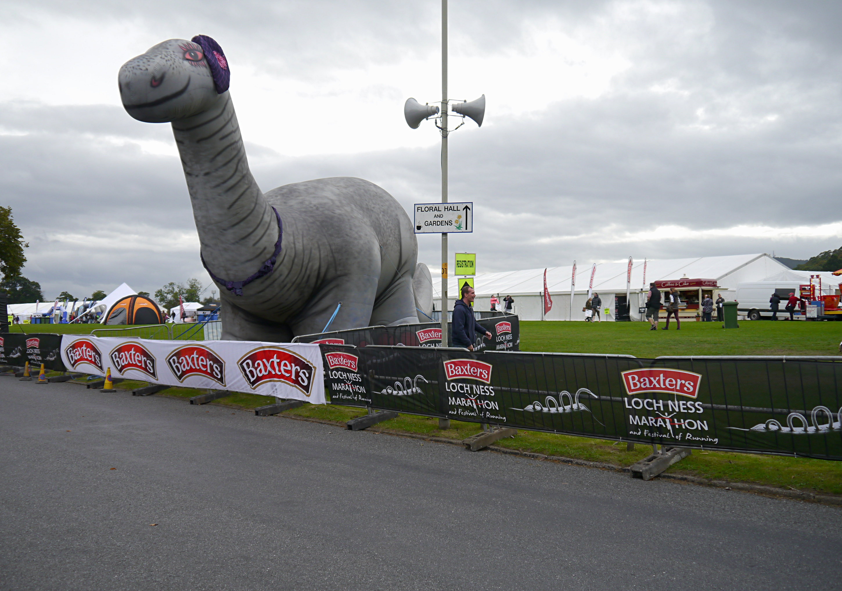 At the edge of Bught Park, on the bank of the River Ness. This is the Saturday afternoon before the Loch Ness Marathon, with the finish straight setup ready to go. Complete with an inflatable Loch Ness monster. Behind is a number of tents, including race registration, food, and the sports expo.